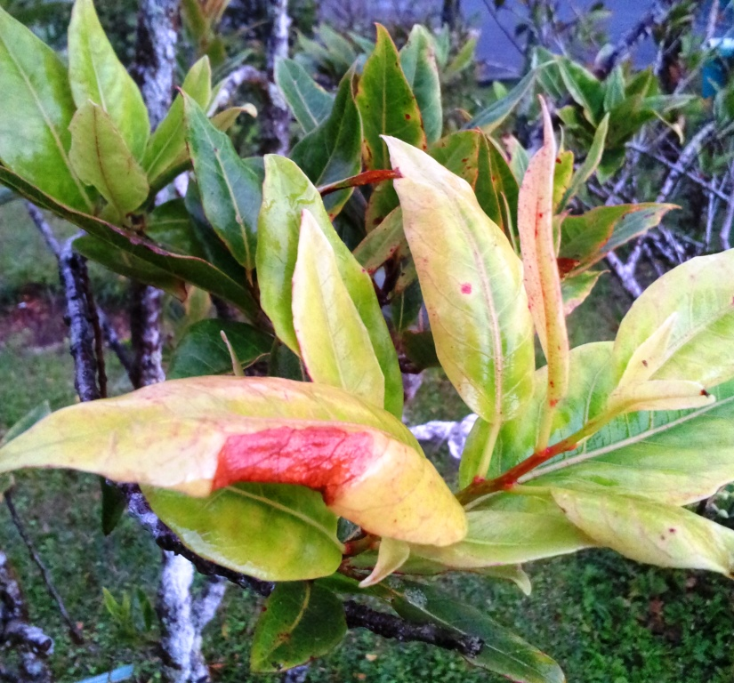 Elaeocarpus bojeri -foliage - Monvert, Mauritius